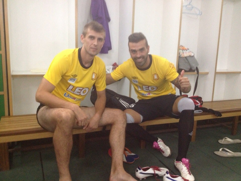 Andriy Protsyk